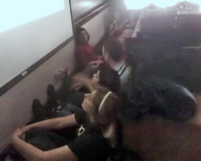 Students gather in Holden Hall during the massacre at Virginia Tech.